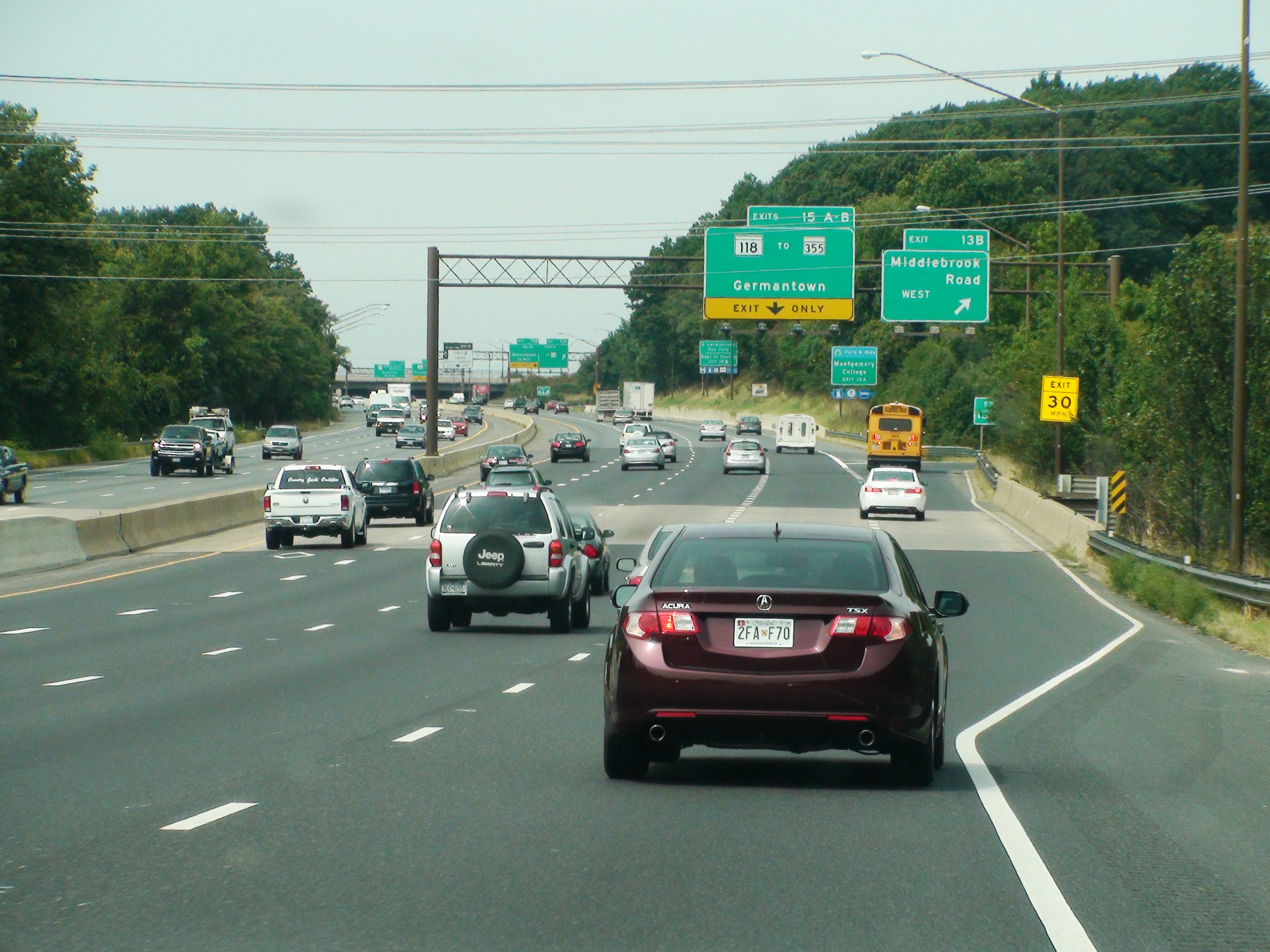 Automobiles heading northbound on Interstate 270 (I-270), in Germantown, Montgomery County, Maryland, at 1:26 p.m. (EDT) on September 9, 2013. Photograph taken on September 9, 2013, in Germantown, Montgomery County, Maryland, with a Sony HDR-SR11 camcorder, by Illegitimate Barrister.